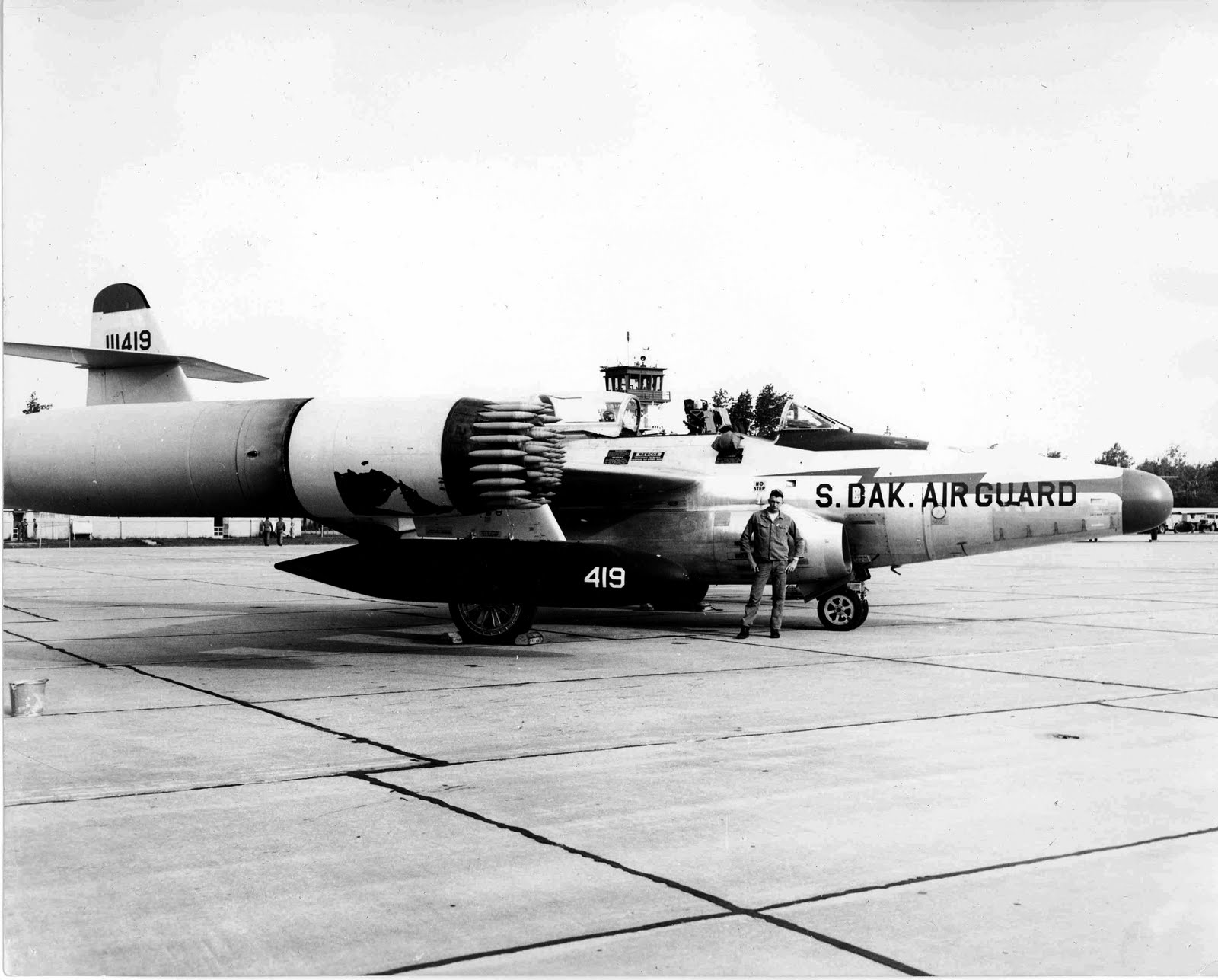 Photo of F89-D Scorpion aircraft South Dakota Air National Guard by John Mollison